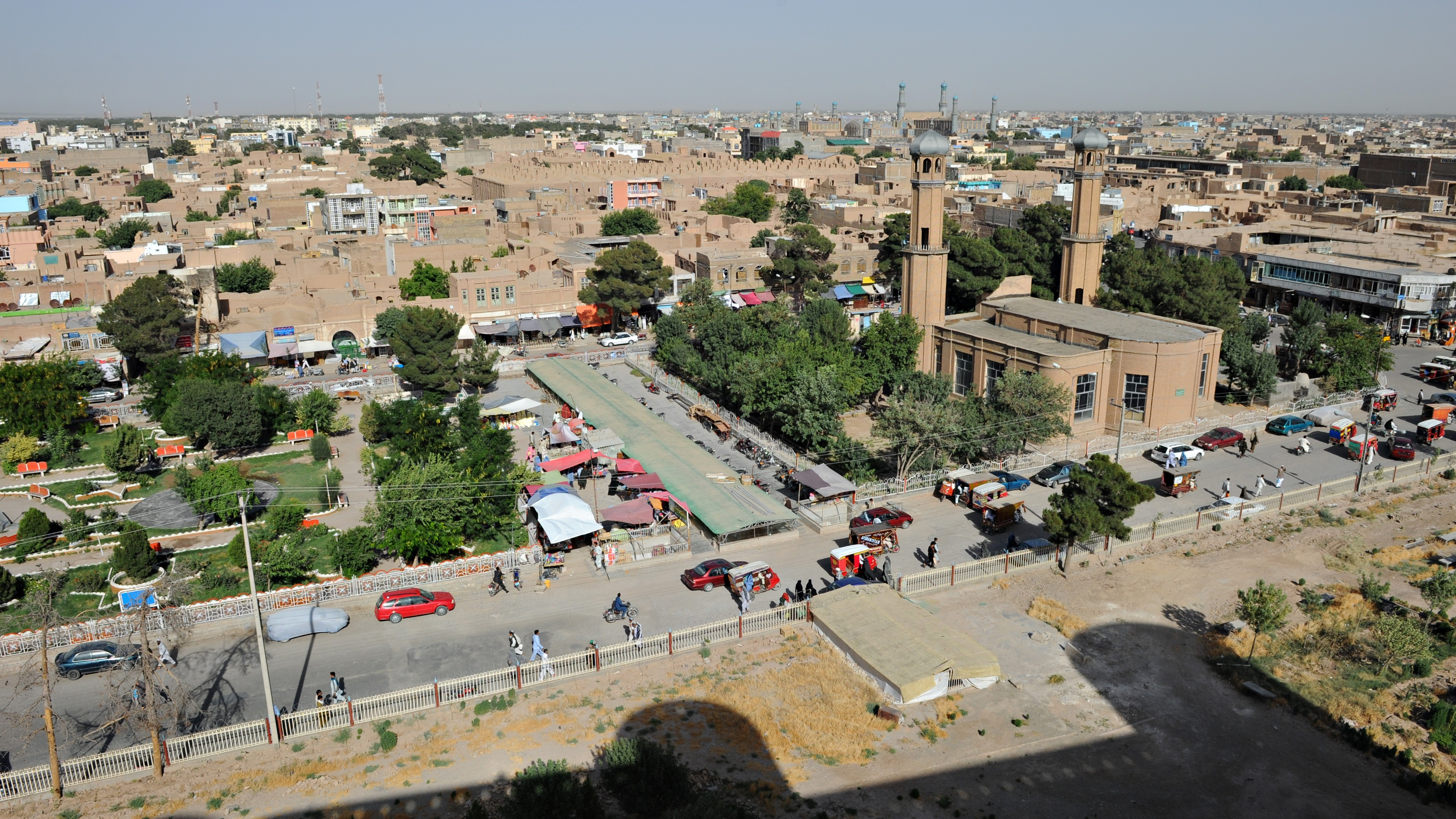 A view of the Old City from the Citadel in Herat, Afghanistan.